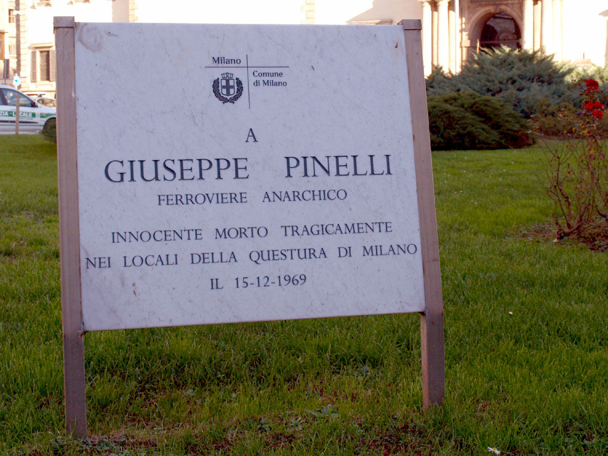 Piazza Fontana, Milan: plaque in memory of the anarchist Giuseppe Pinelli, who died under police custody, charged with being responsible of a terrorist attack in Piazza Fontana occurred on December 12, 1969. He was eventually recognized innocent and cleared of all charges. This plaque has been put in place by the Milan City Council. (Picture taken on December 12, 2007).